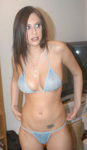 Cassia Riley, taken behind the scenes at a photo shoot on March 9, 2006.